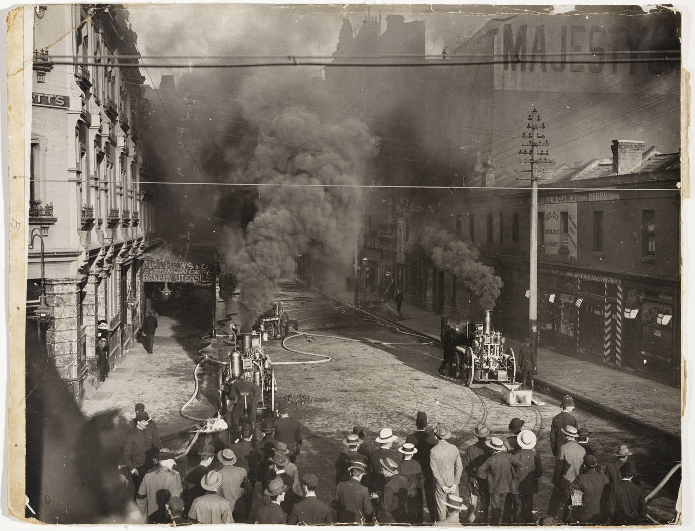 One of the loveliest theatres built in Sydney, it had played Ben Hur, complete with a dangerous, racing treadmill and backdrop for the chariot race, and was then closed for the outbreak of bubonic plague in Sydney. It was rebuilt and re-opened by 1903, only to be demolished about thirty years later for a Woolworths. Format: Photograph Find more detailed information about this photograph: .au/item/itemDetailPaged.aspx?itemID=403021 Search for more great images in the State Library's collections: .au/search/SimpleSearch.aspx From the collection of the State Library of New South Wales